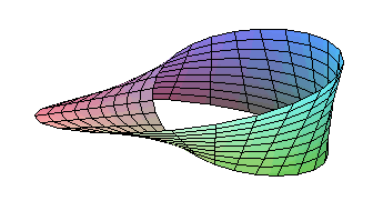 Möbius band